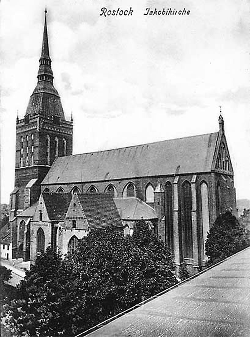 Jacobikirche Rostock; has been destroyed accidentally (probably) during the break of a WW2 bunker because it has already been hit by allied bombs 1942.